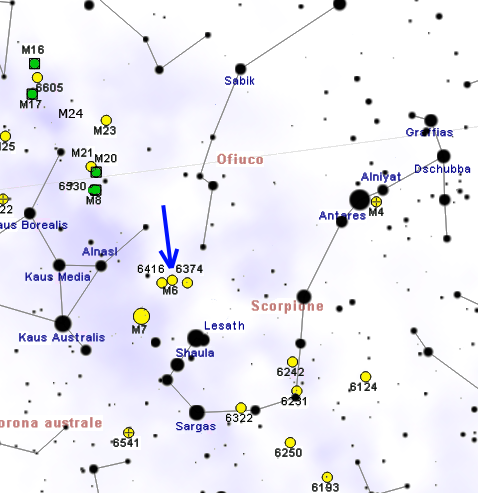 M6